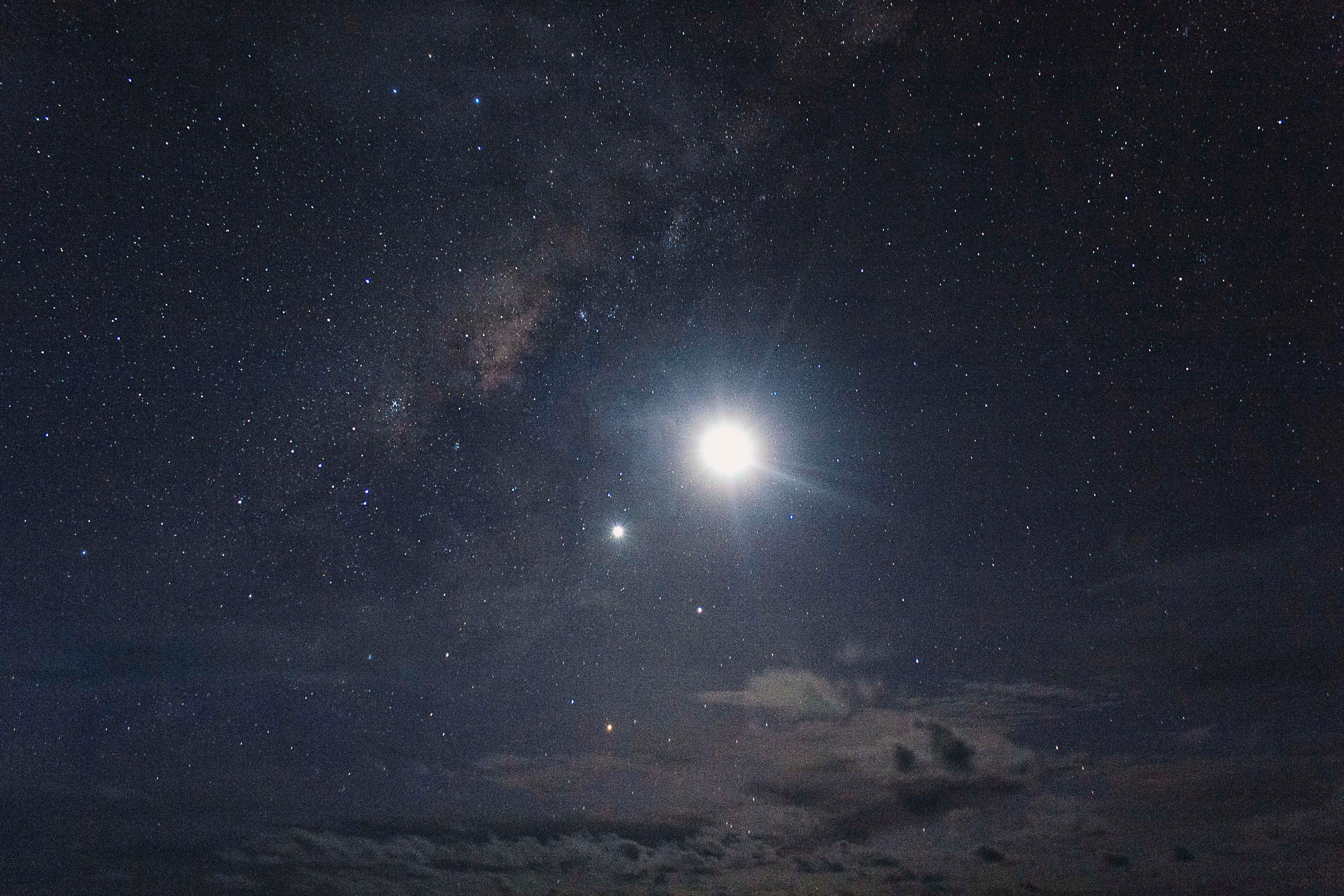 Night sky, stars